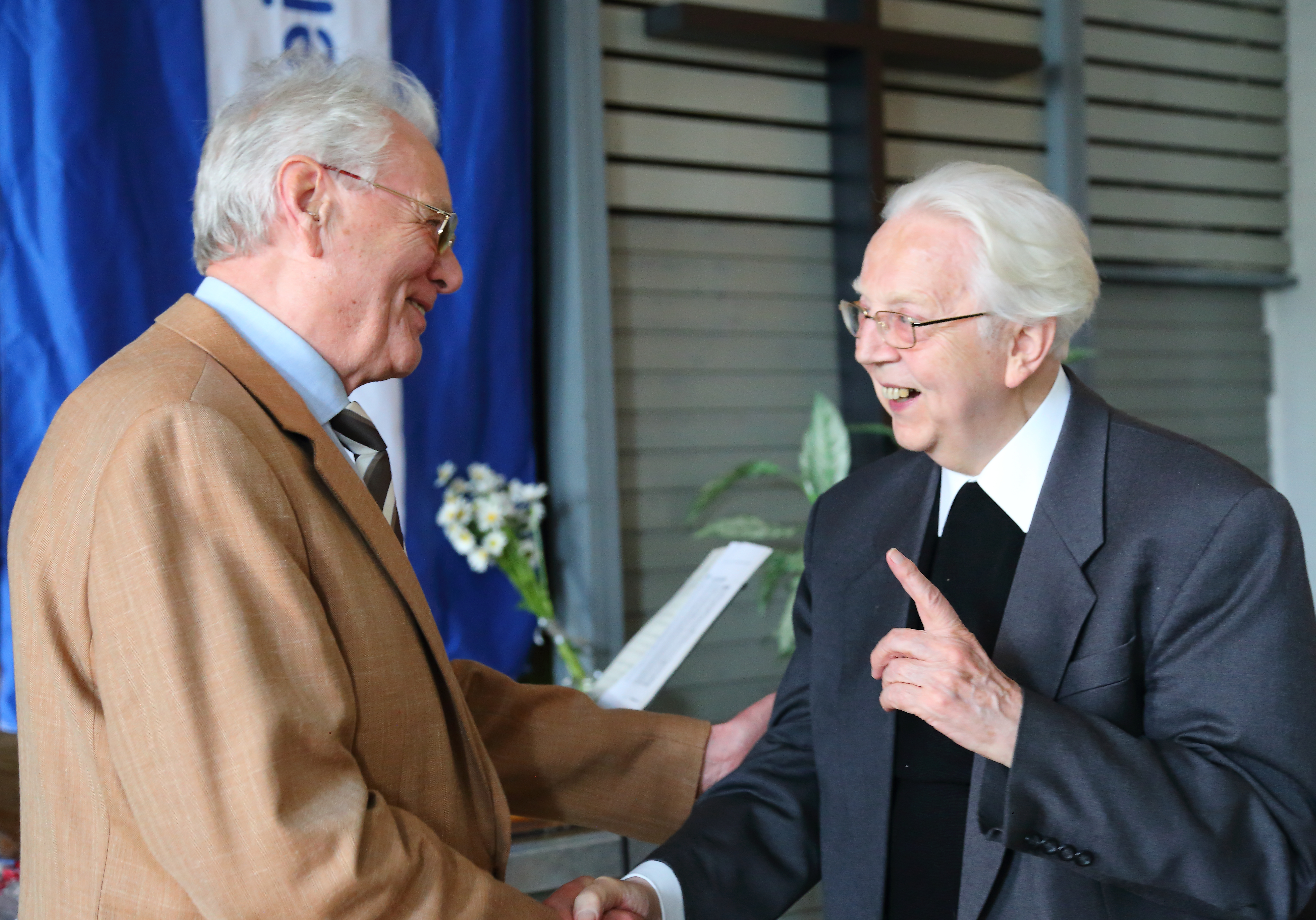 Reception hold on the occasion of the 85th birthday of Father Werner Heukamp and his 20 years of serving in Recke at the Dio-Jugendheim in Recke, Kreis Steinfurt, North Rhine-Westphalia, Germany. Here Martin Stroot, one of the chairmen of the Heimatverein Recke, congratulates Father Werner Heukamp. Father Heukamp is a honorary member of the Heimatverein.